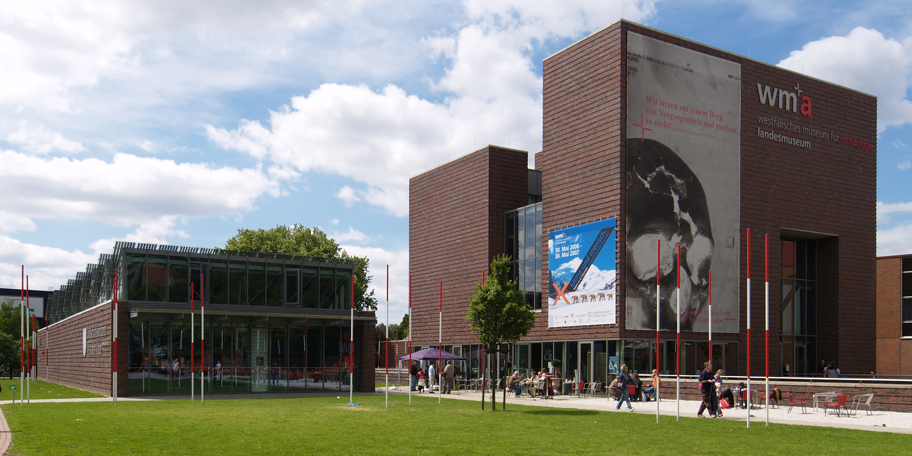 The WMA (Westphalian Museum of Archeology) at Herne, Germany.